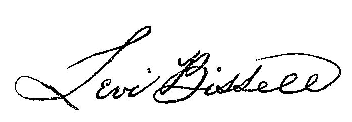 Levi Bissells - Signature